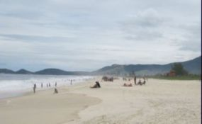 Beach of Jaconé